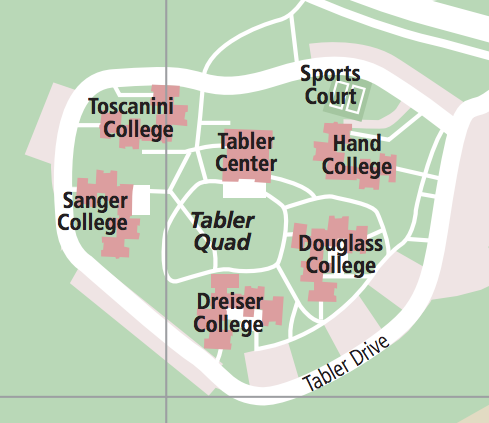 A portion of the Stony Brook University map displaying Tabler Quad